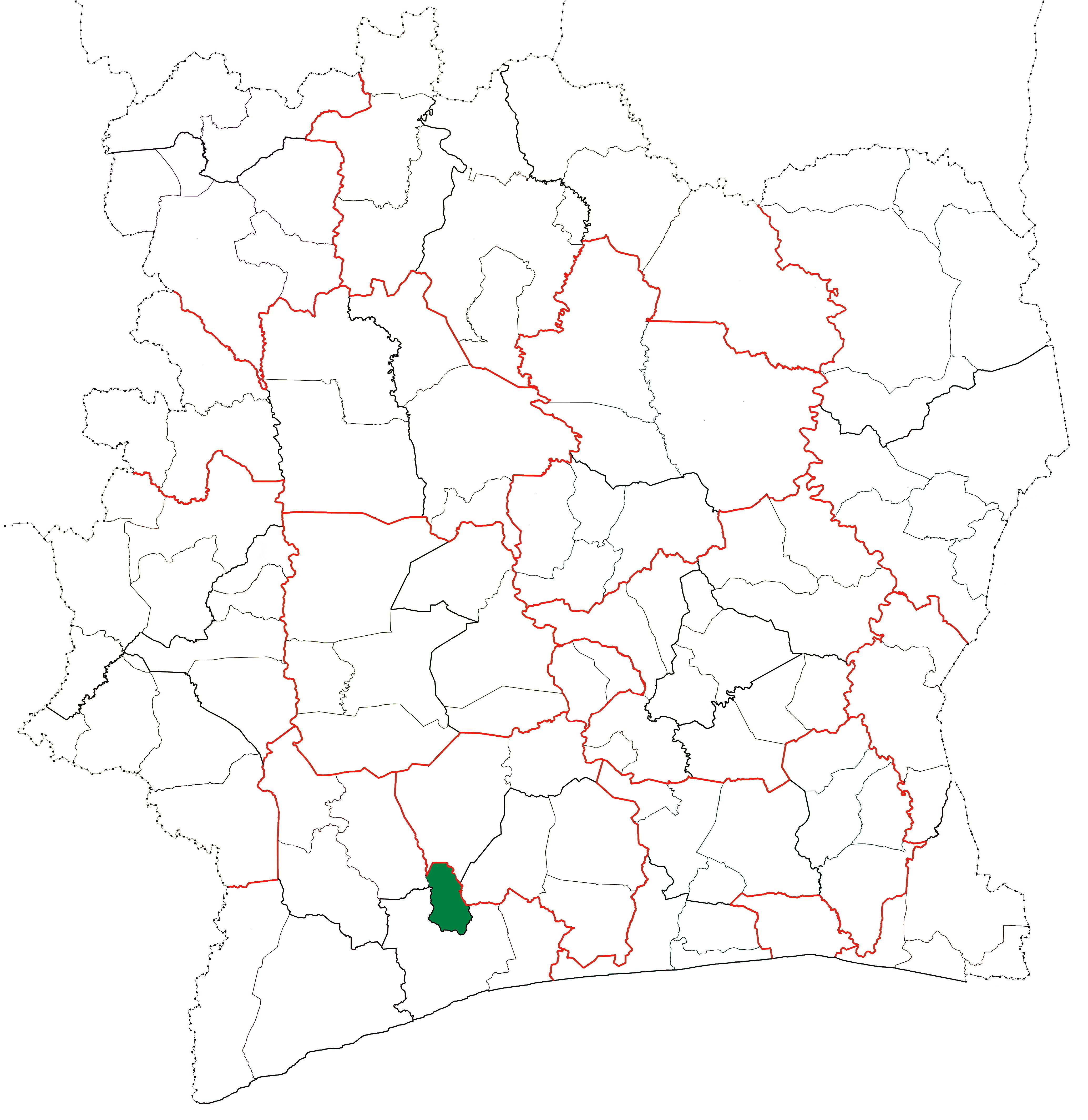 Locator map for Guéyo Department in Côte d'Ivoire.